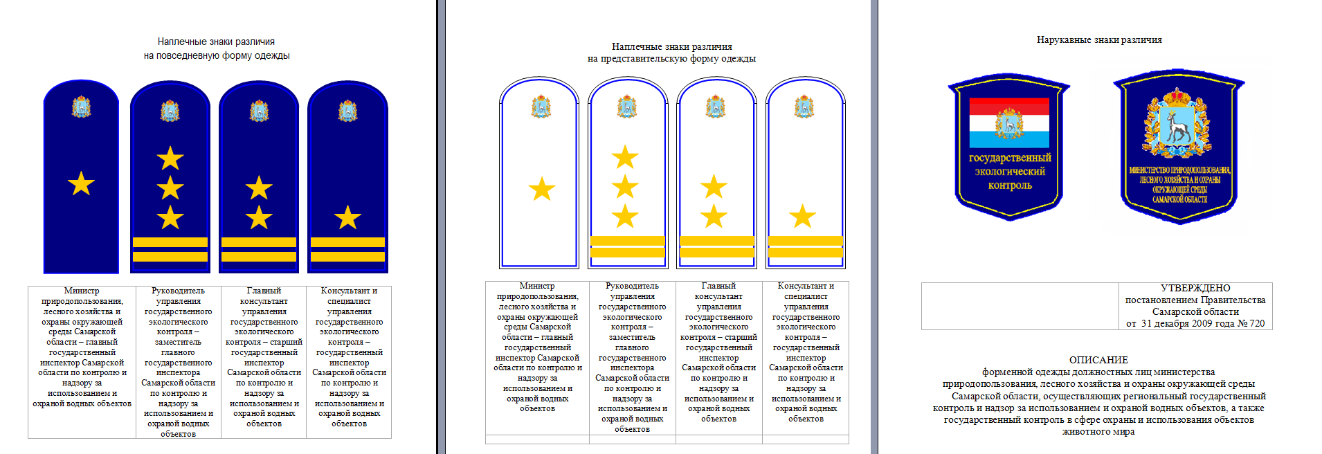 Uniform of the Ministry of Ecology of the Samara Region (Russia)